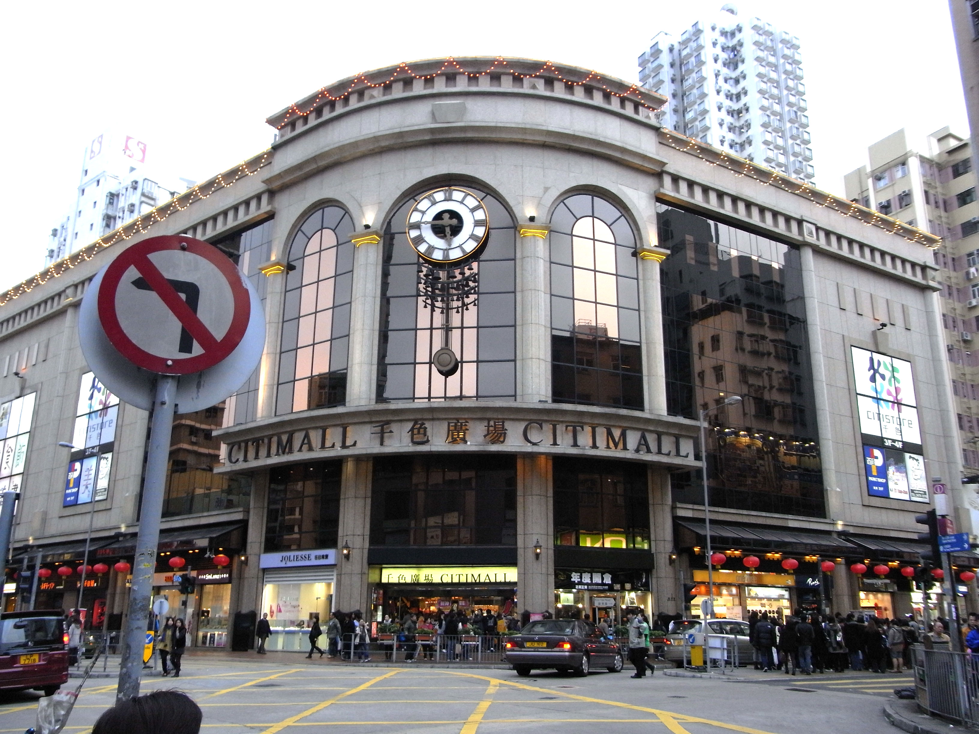 元朗 千色廣場 教育路 & 大棠道 黃昏街景